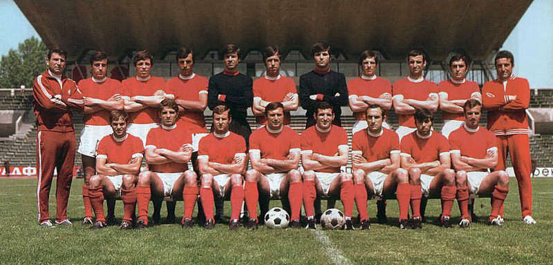 CSKA Septemvriysko zname team in 1973. From left to right standing Manol Manolov (head coach), Kiril Stankov, Borislav Sredkov, Stoil Trankov, Stoyan Yordanov, Asparuh Nikodimov, Drazho Stoyanov, Ivan Zafirov, Boris Gaganelov, Todor Simov, Nikola Kovachev; sitting Tsvetan Atanasov, Plamen Yankov, Georgi Denev, Petar Zhekov, Dimitar Penev, Bozhil Kolev, Stefan Mihaylov, Dimitar Marashliev